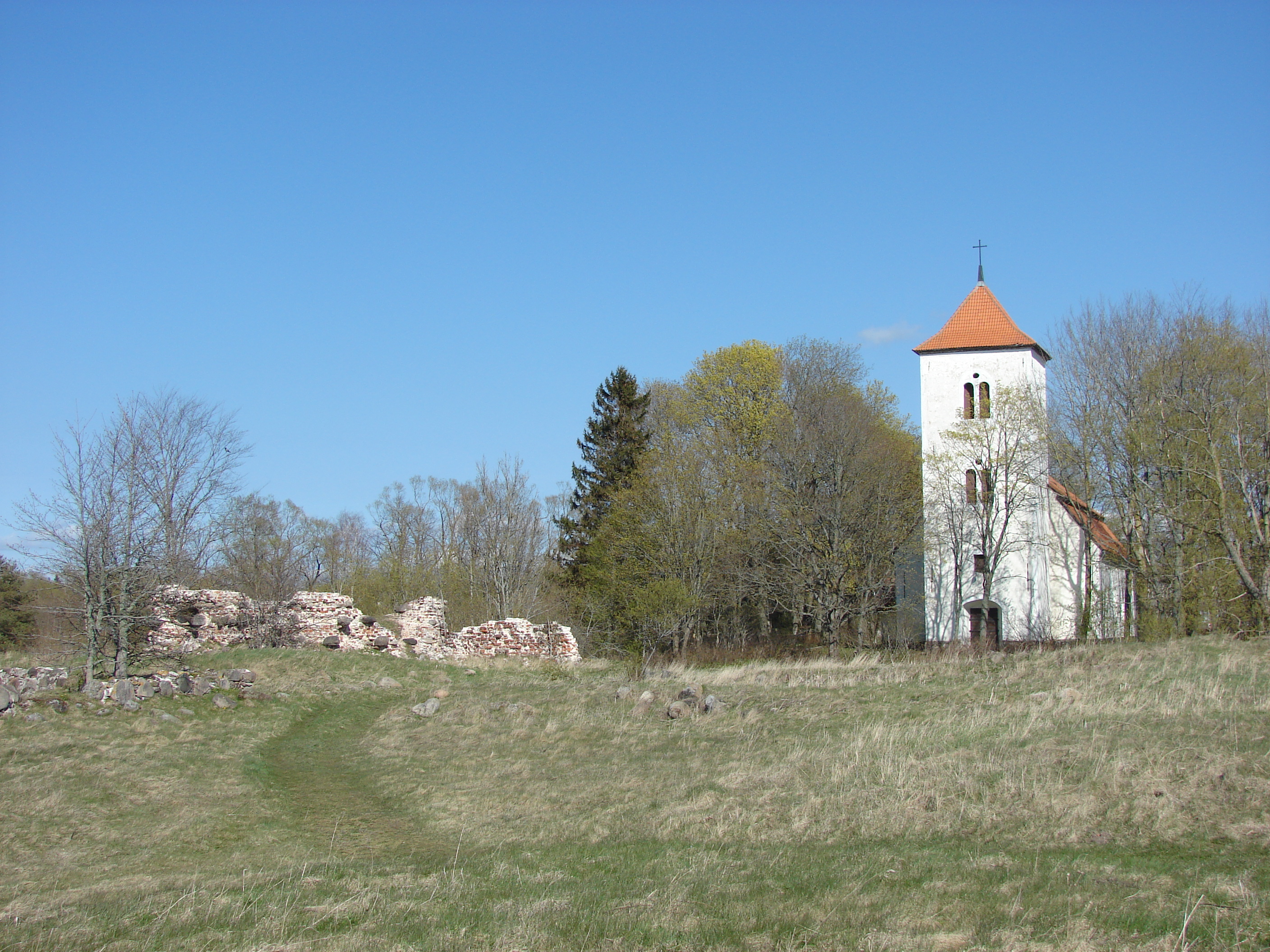 Piltene Evangelical Lutheran Church and Castle ruins